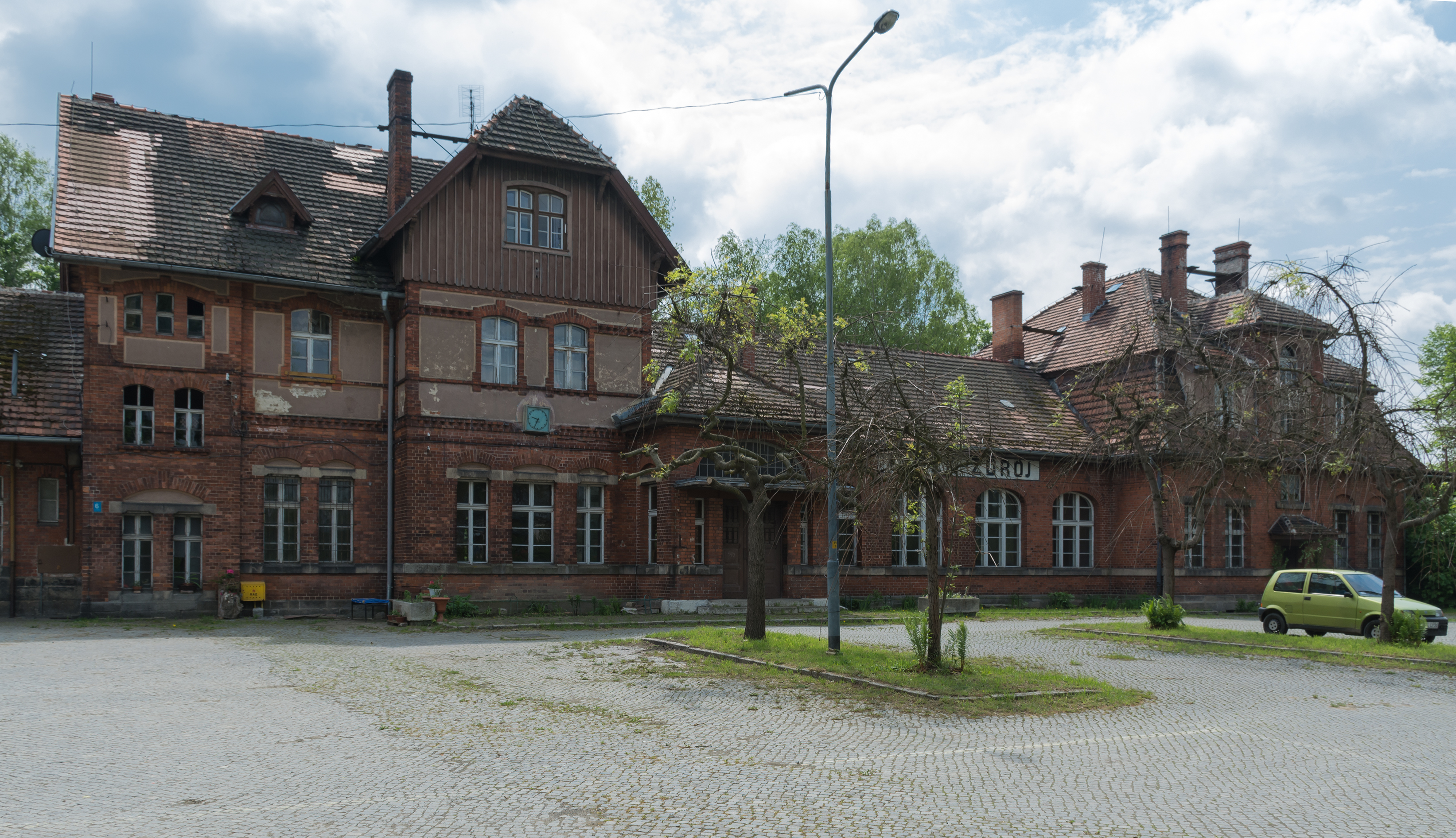 Train station in Lądek-Zdrój